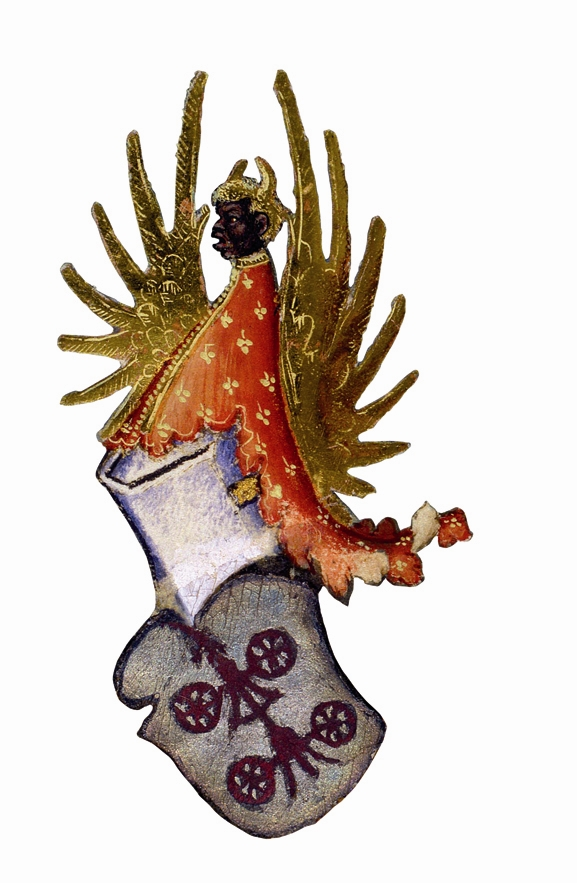 Coat of arms of the House of Carrara